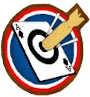 Emblem of the 439th Bombardment Group (World War II)